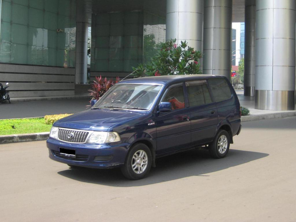 Toyota Kijang 1.8 LSX (KF82) photographed in Jakarta, Indonesia.